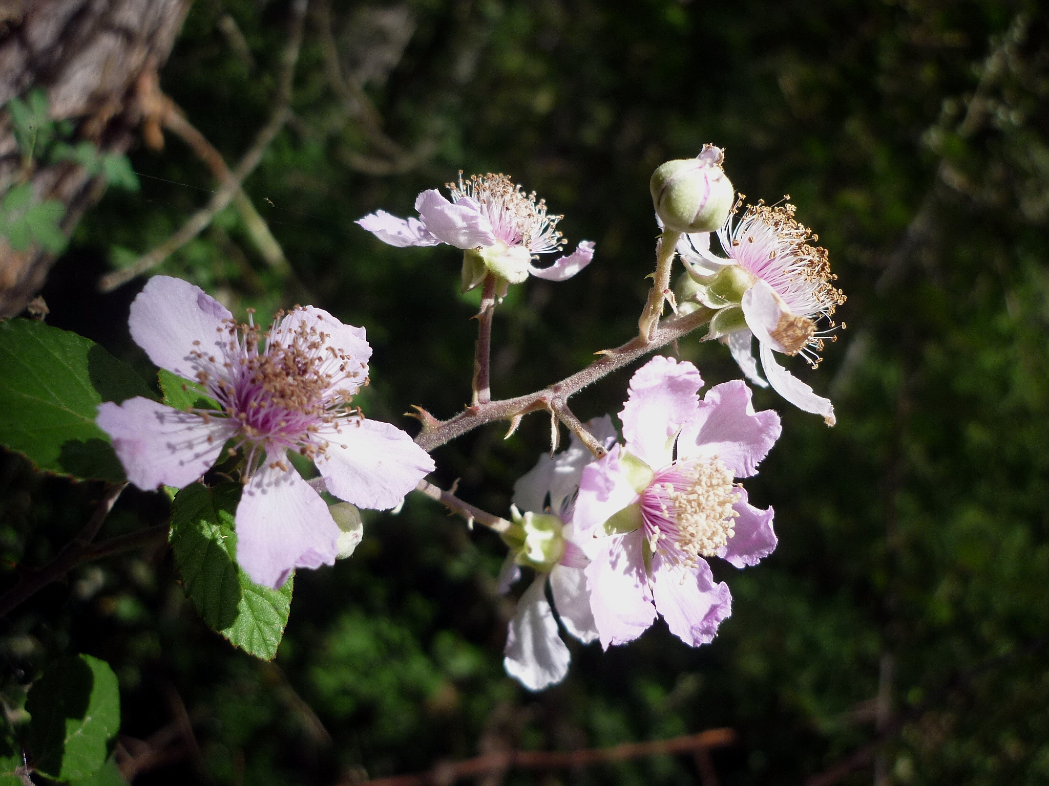 Rubus ulmifolius . In Pinós (Solsonès - Catalunya). To 610 m. altitude